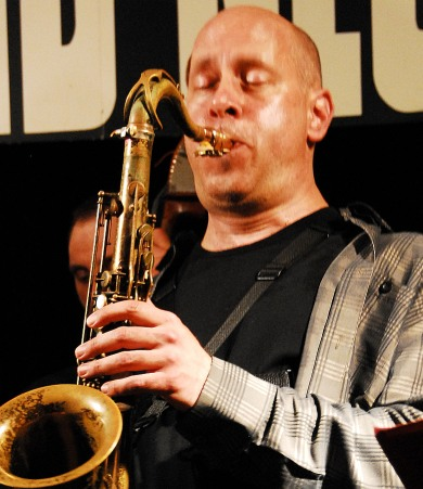 Jazz musician Walt Weiskopf playing the saxophone